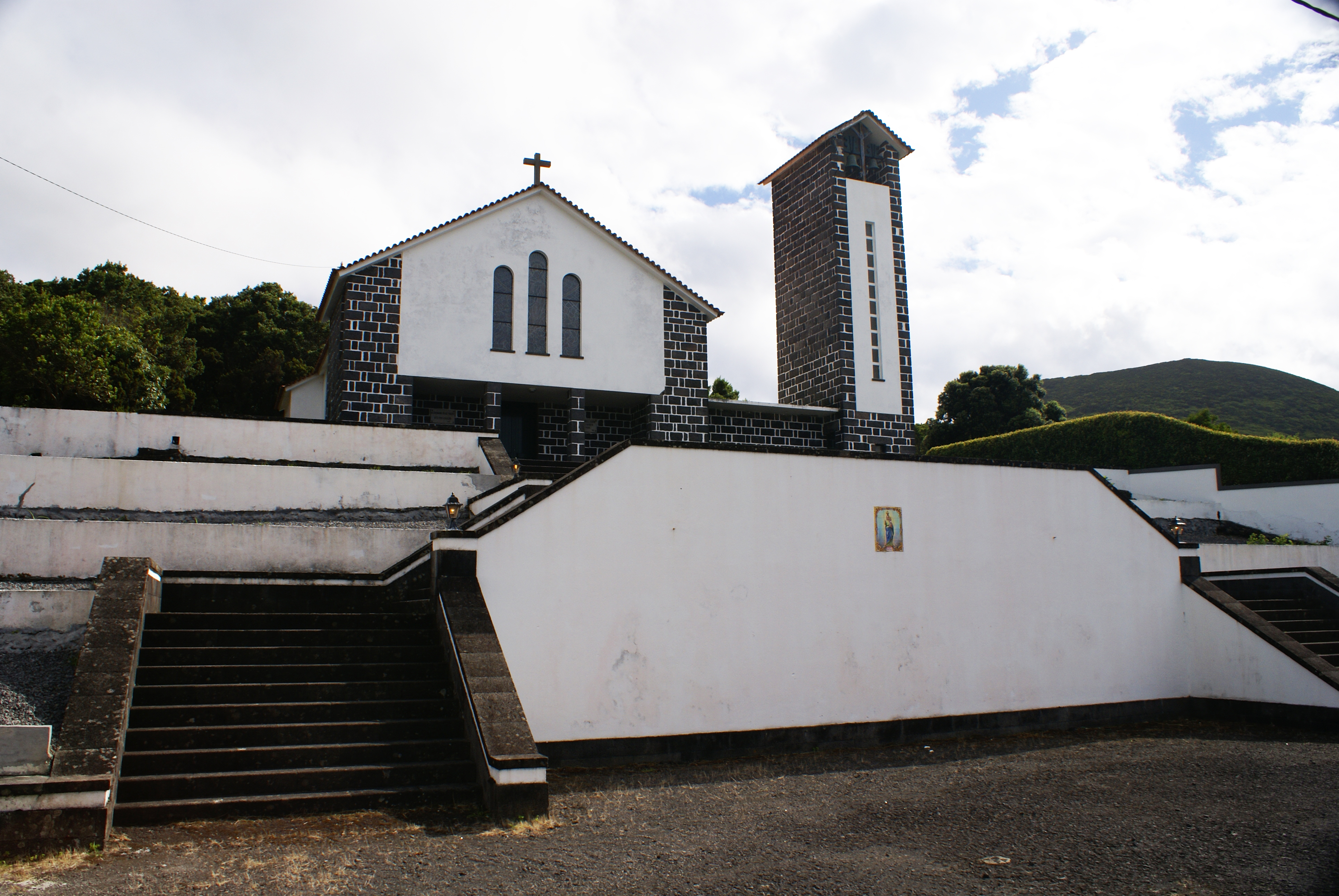 The modernist church of Nossa Senhora da Esperança (Norte Pequeno), Capelo, Horta, Faial (Azores), Portugal